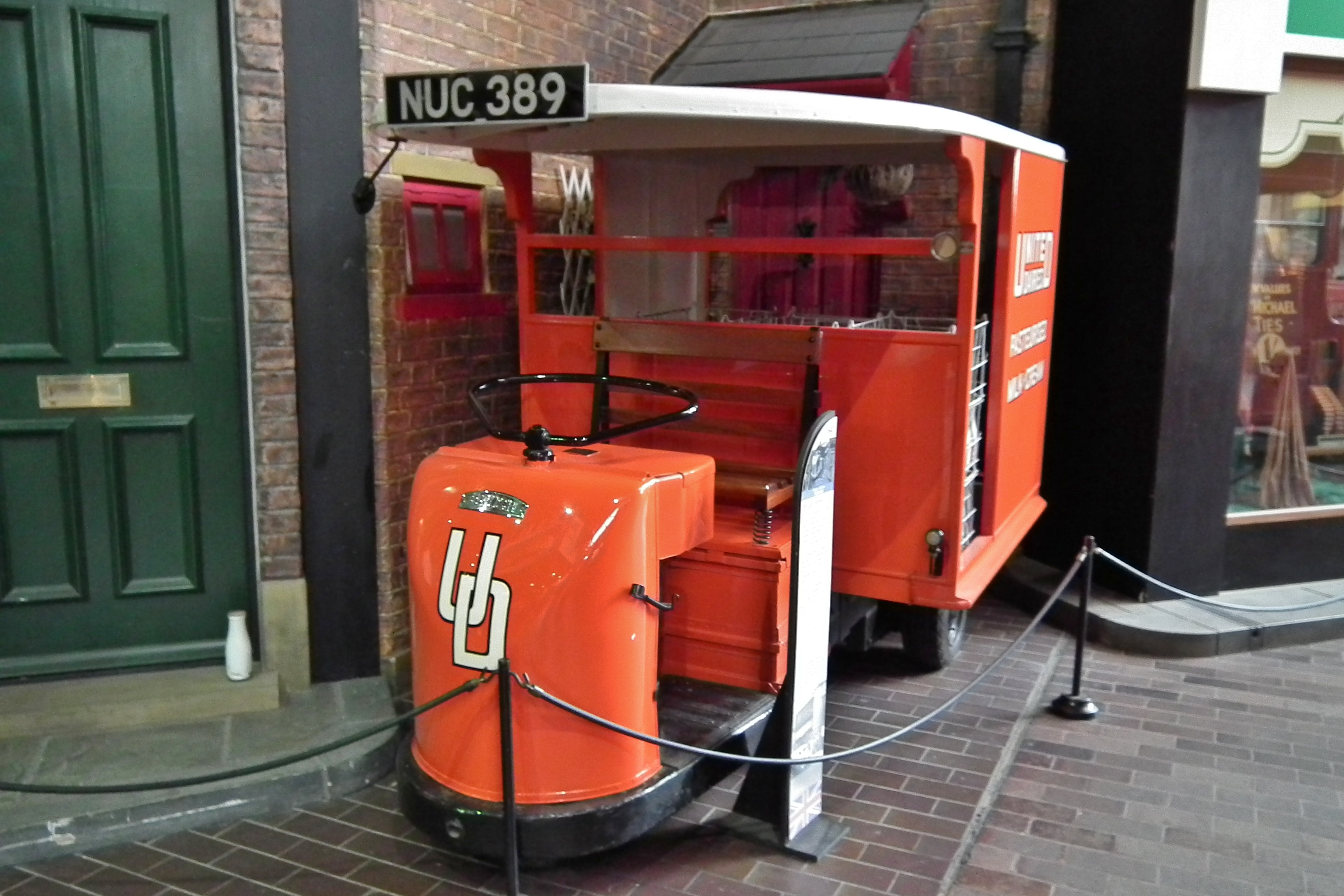 1947 Brush Pony. Taken at the National Motor Museum in Beaulieu, Hampshire, England.